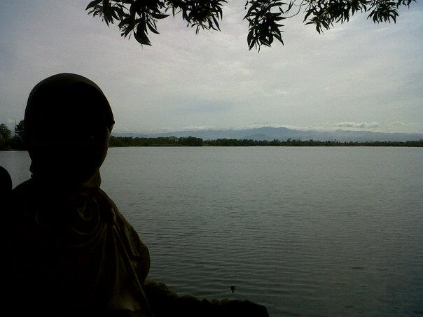 Lake Dendam Tak Sudah, Bengkulu.